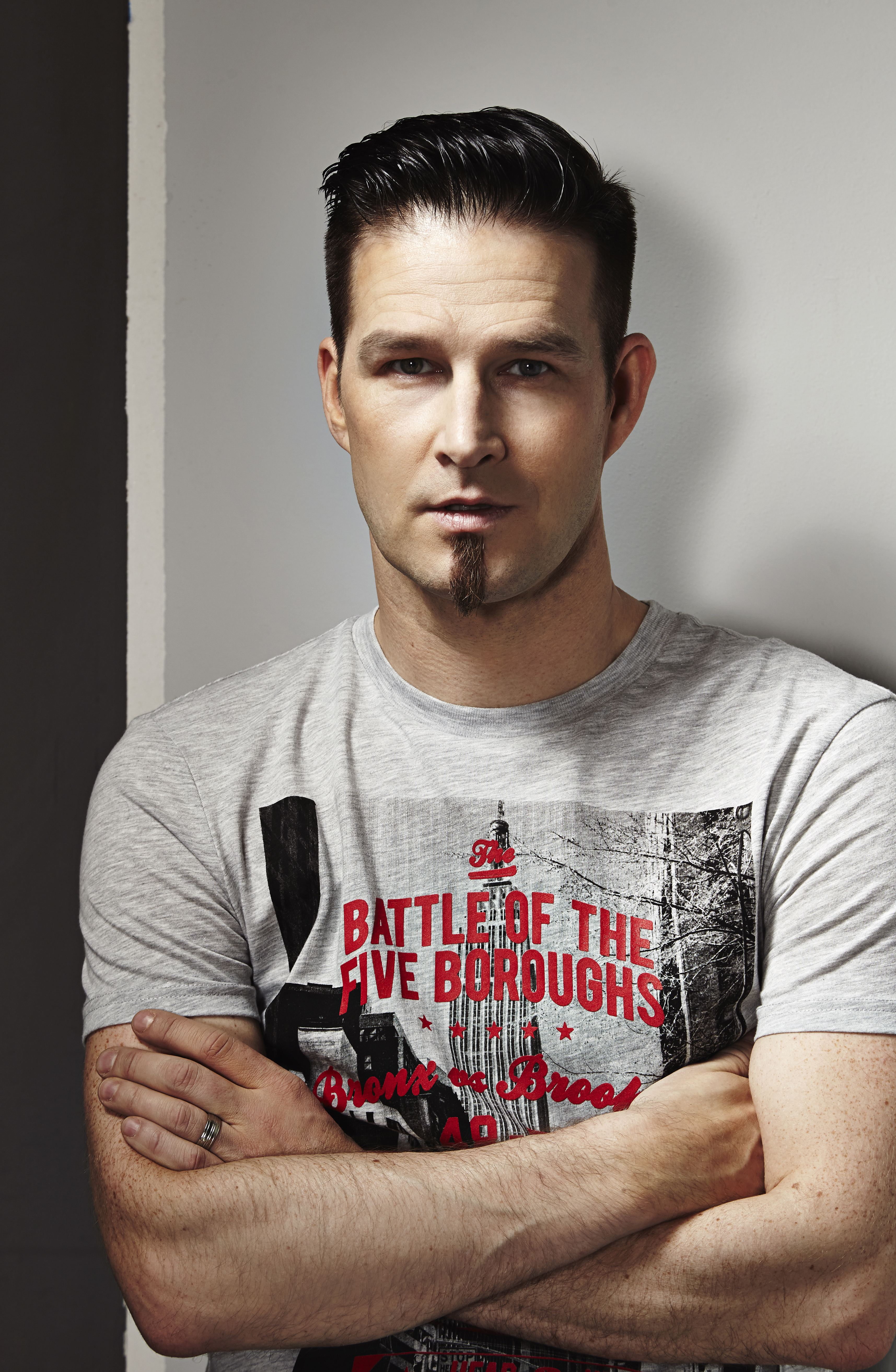 Darude_16.12.20140255 - note by uploader Earflaps - official owner of this press photo released the picture into the public domain on fickr, after Earflaps' email request